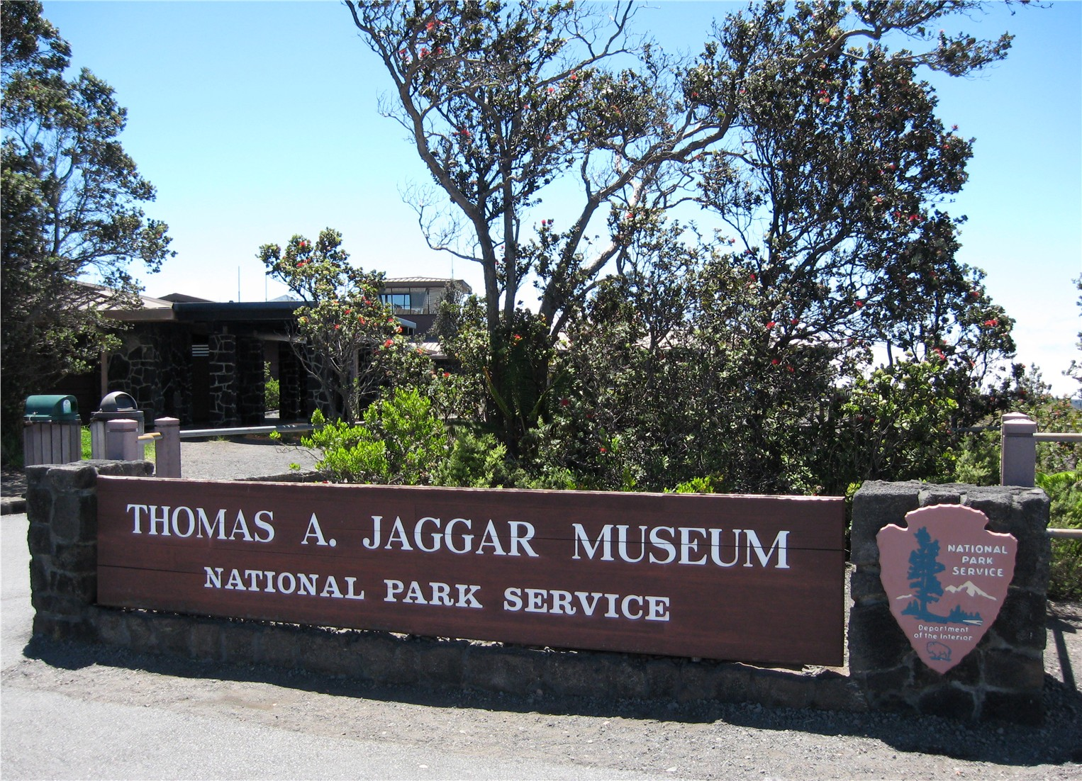 The Thomas A. Jaggar Museum in Hawaii Volcanoes Natonal Park, on the rim of the volcano Kilauea. On the National Register of Historic Places in Hawaii Volcanoes National Park, within the state of Hawaii.